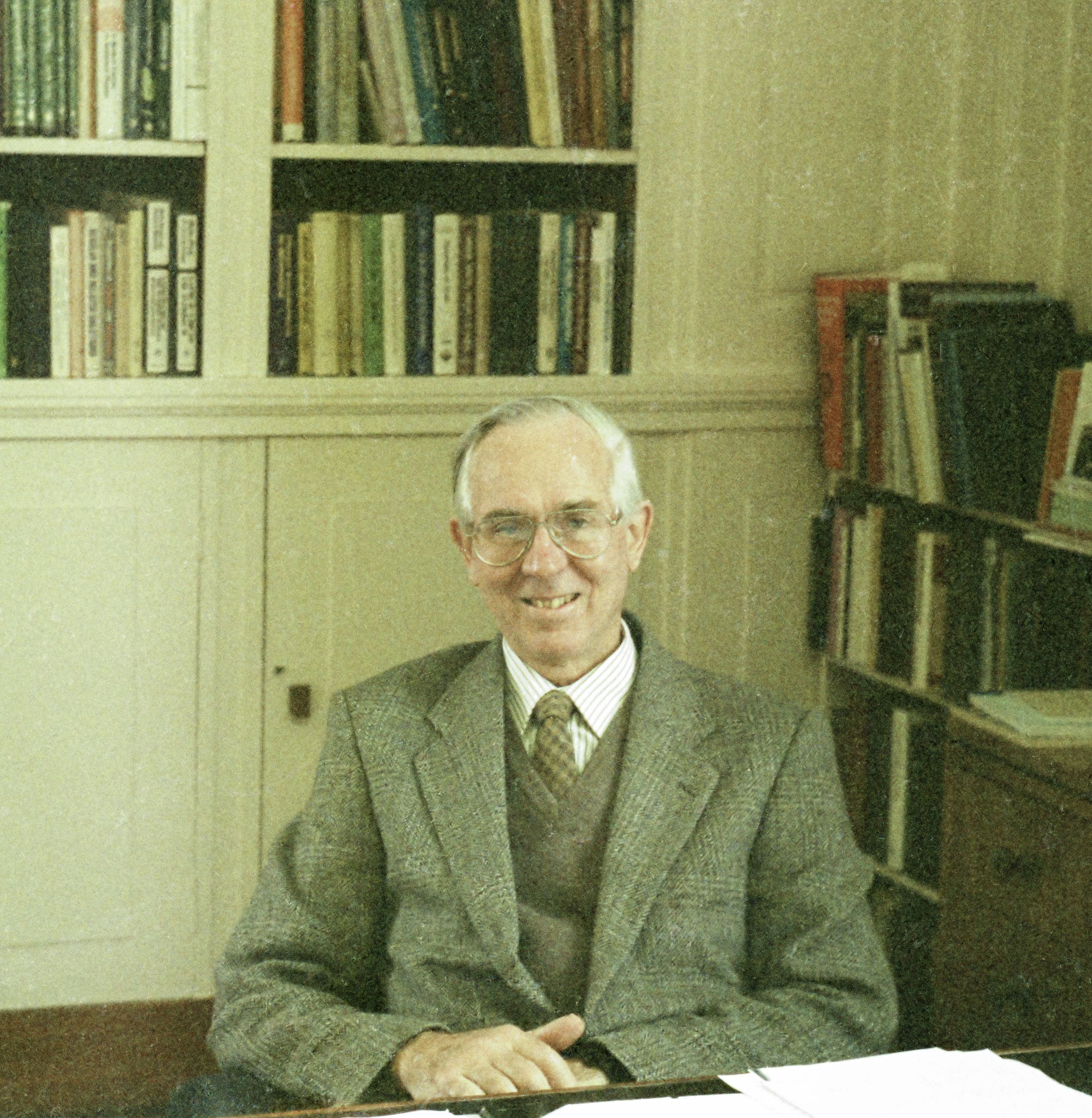 Professor Sir John Rowlinson in his office in Physical Chemistry Laboratory, South Park Rd, Oxford